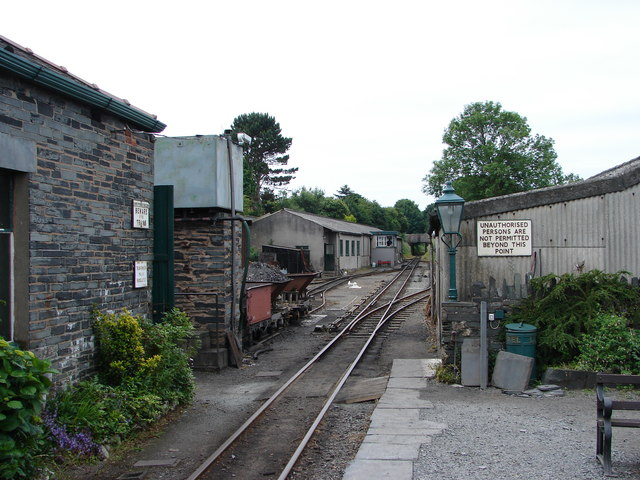 Pendre station and the workshops and sheds of the Talyllyn Railway